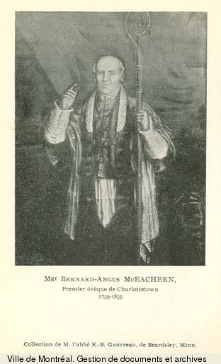 This is a photo of Bishop Bernard Angus MacEachern, uploaded to illustrate the subject in question. This photo has not been modified by the uploader. Source (URL)